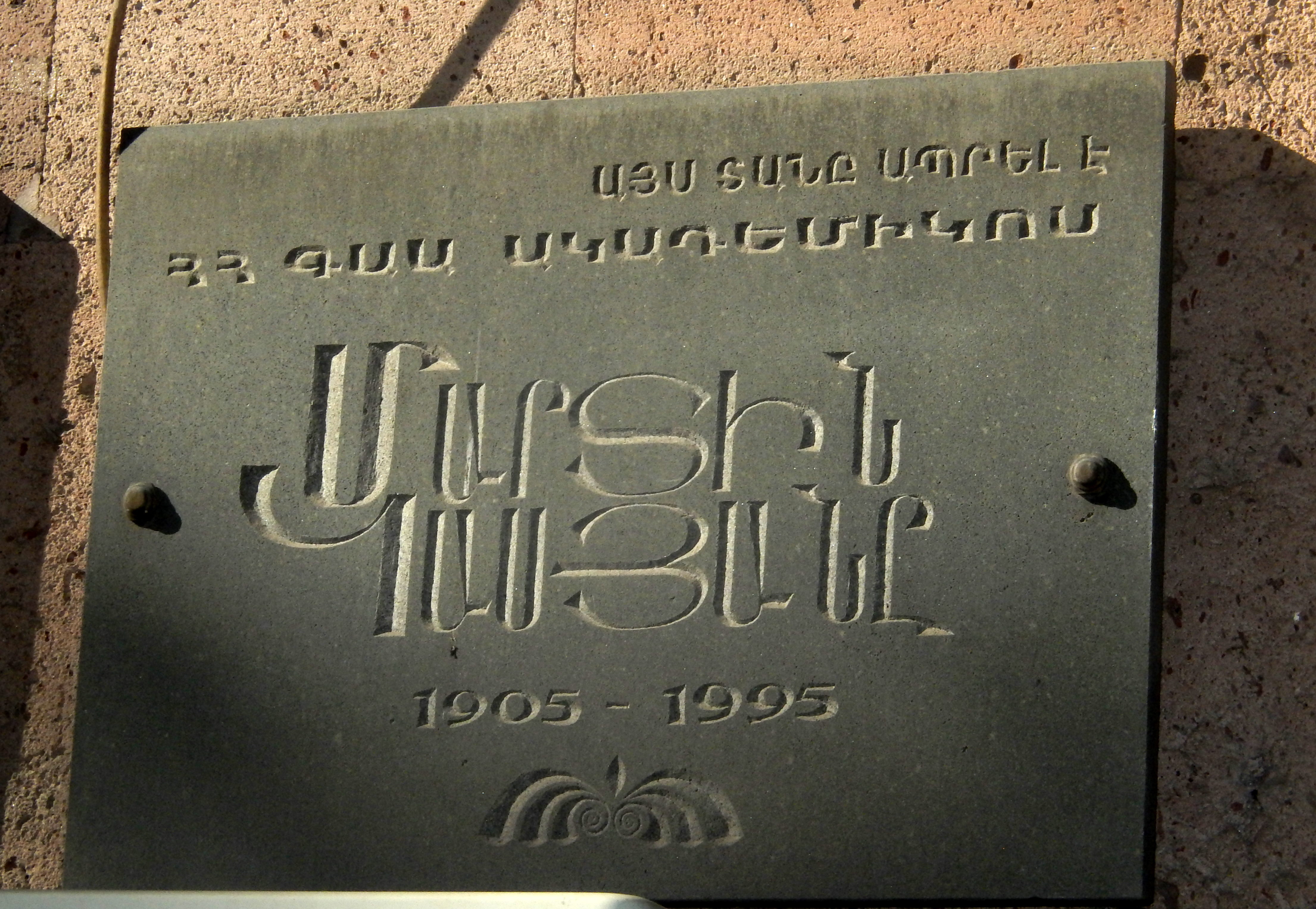 Martin Kasyan's plaque